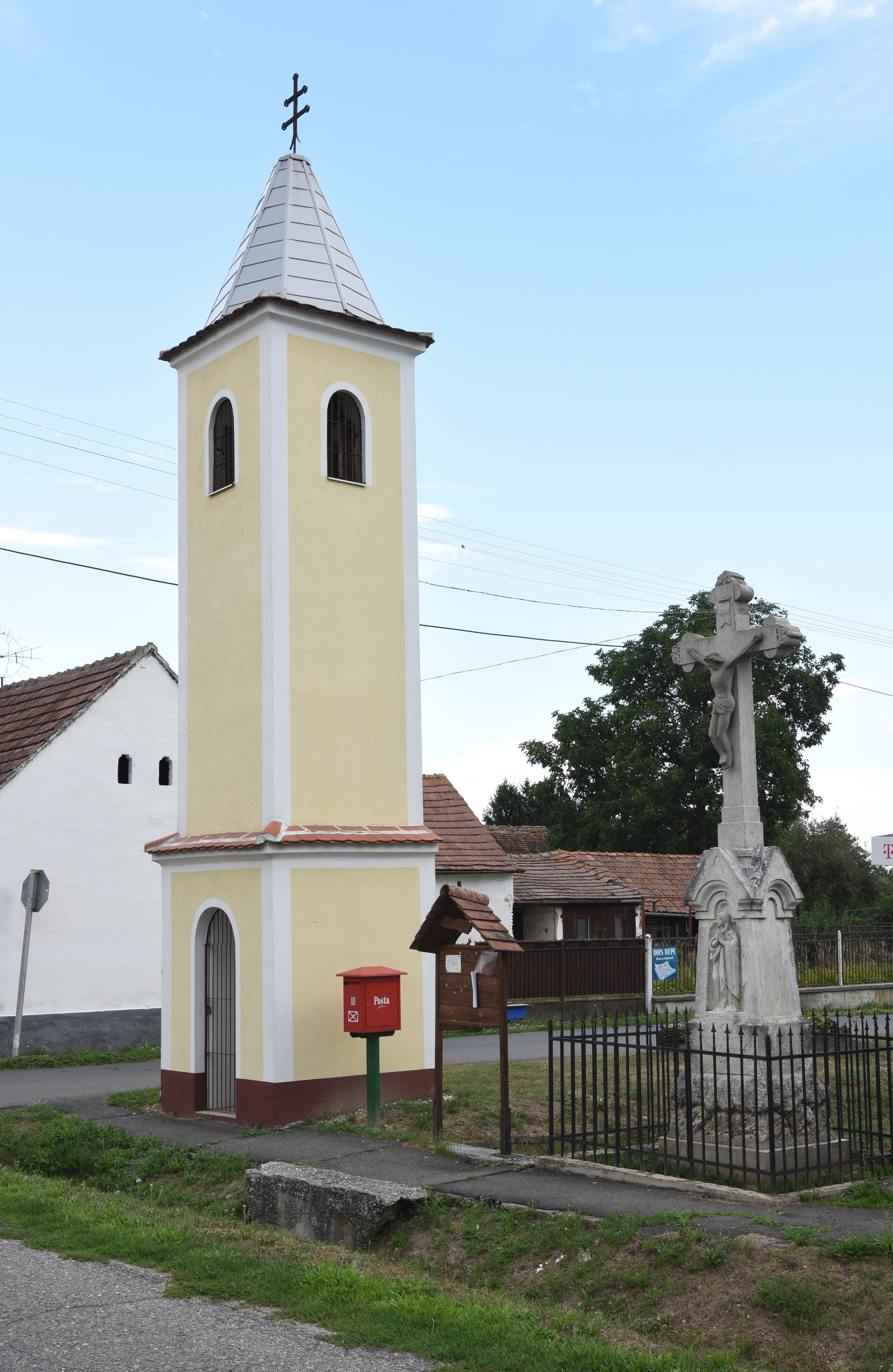 Vasalja